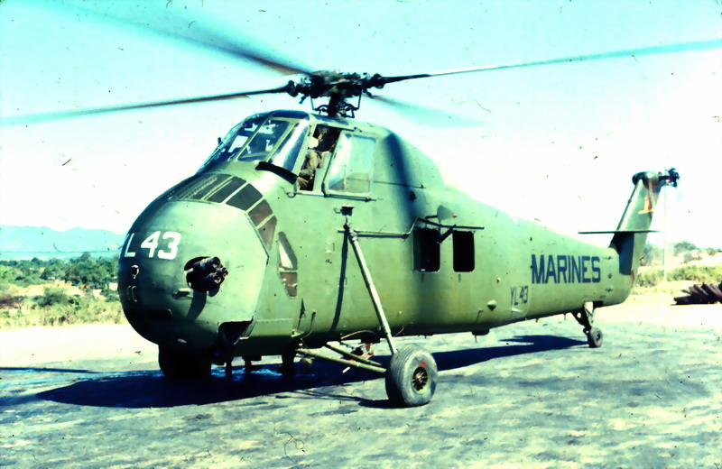 A U.S. Marine Corps Sikorsky UH-34D Seahorse of Marine Medium Helicopter Squadron HMM-362 in the Vietnam War in 1967. Due to the pre-1962 designation "HUS-1", the UH-34 was often named "Huss".